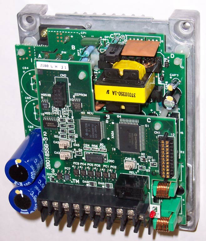 Hitachi J100 adjustable and us world frequency drive chassis. Photographed by C J Cowie